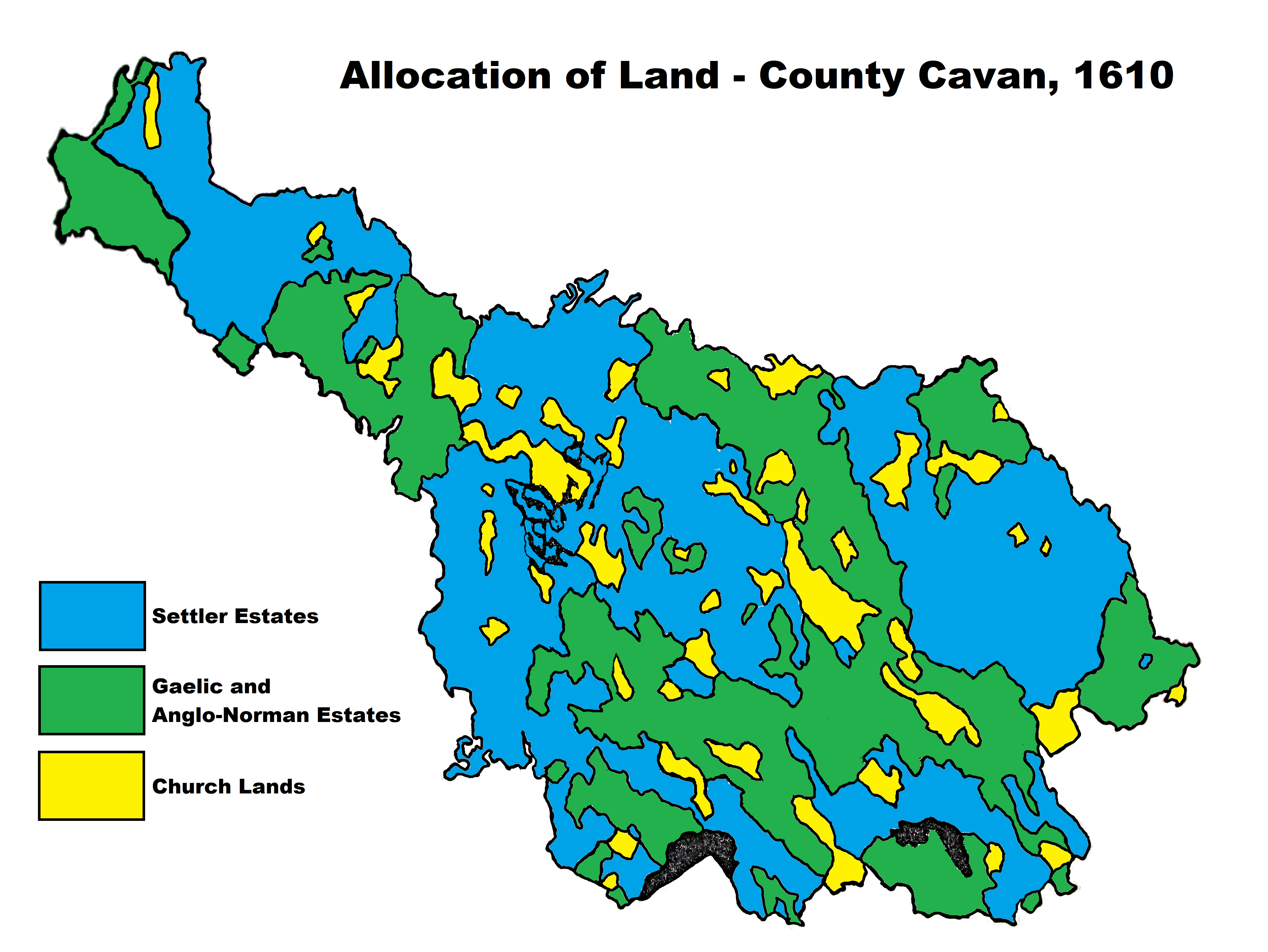 Map of the Allocation of Land following the 1609 Survey of County Cavan